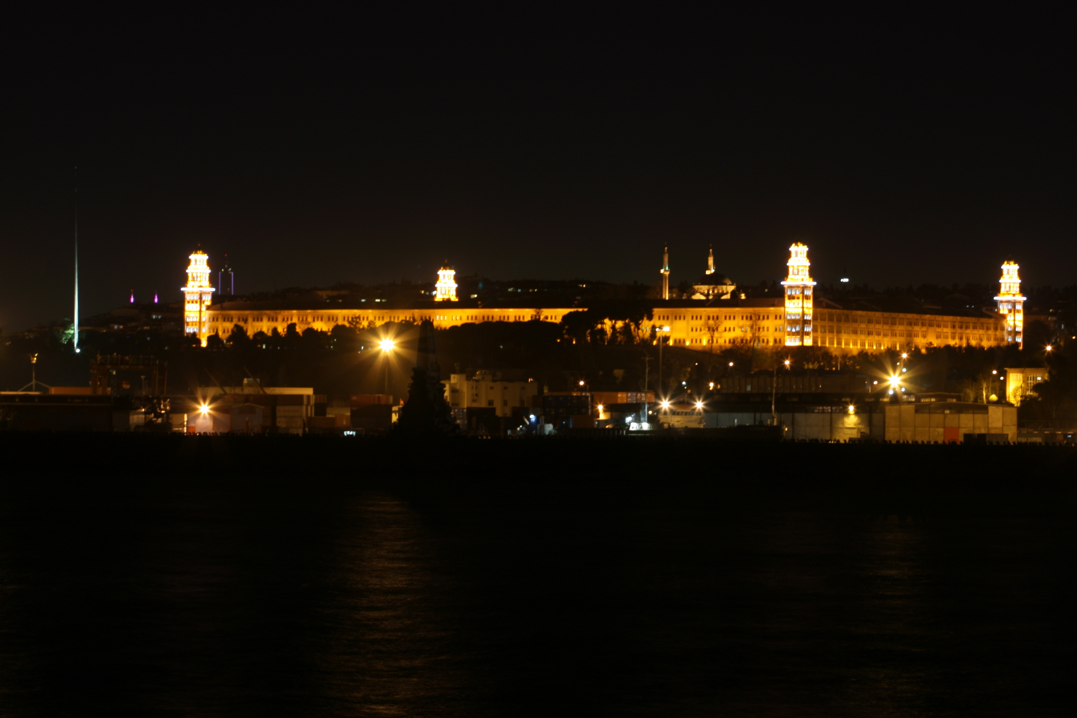 The Selimiye Barracks